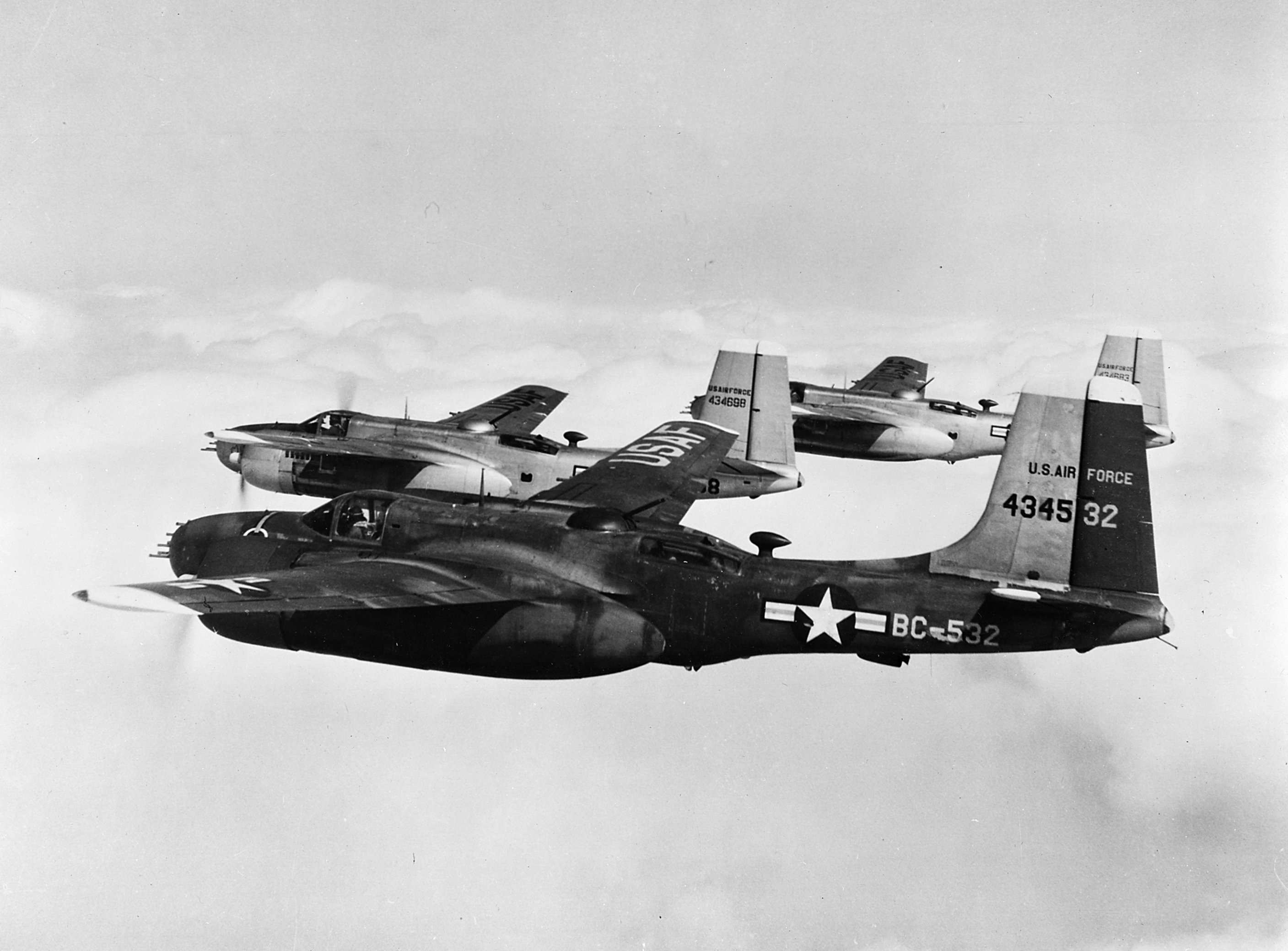 USAF Douglas B-26B Invaders of the 452nd Bombardment Wing returning from a mission over North Korea, May 1951. Original caption: "Homeward Bound-A tight formation of B-26 Invader light bombers of the Fifth Air Force's 452nd Bomb Wing (light) do some cloud hopping as they head for their home base in Japan. They have napalm and .50 caliber fire, and now seek a welcome refuge from the rigors of dodging mountain-tops and other ground objects. At this stage of the mission , crew members relax and secretly give thanks that this one is nearly over."